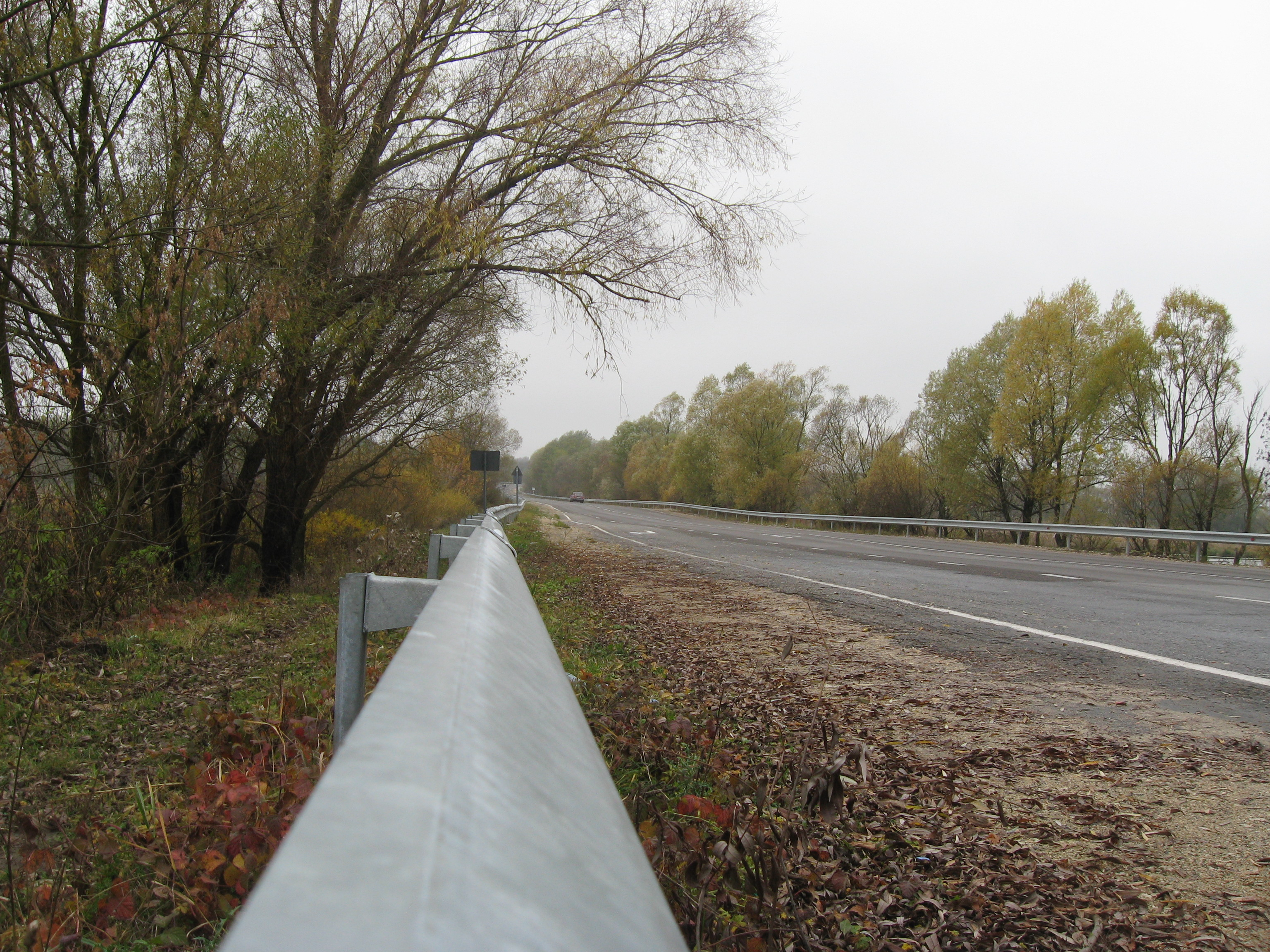 Highway M12, (european E50) in Khmelnytskyy Oblast, Ukraine